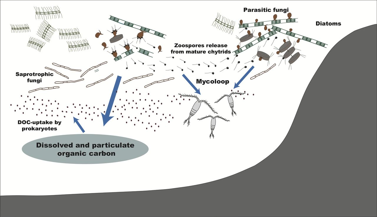 Roles of fungi in the marine carbon cycle by processing phytoplankton-derived organic matter. Parasitic fungi, as well as saprotrophic fungi, directly assimilate phytoplankton organic carbon. By releasing zoospores, the fungi bridge the trophic linkage to zooplankton, known as the mycoloop. By modifying the particulate and dissolved organic carbon, they can affect bacteria and the microbial loop. These processes may modify marine snow chemical composition and the subsequent functioning of the biological carbon pump. For more details see: Gutierrez MH, Jara AM, Pantoja S (2016) "Fungal parasites infect marine diatoms in the upwelling ecosystem of the Humboldt current system off central Chile". Environ Microbiol, 18(5): 1646–1653.